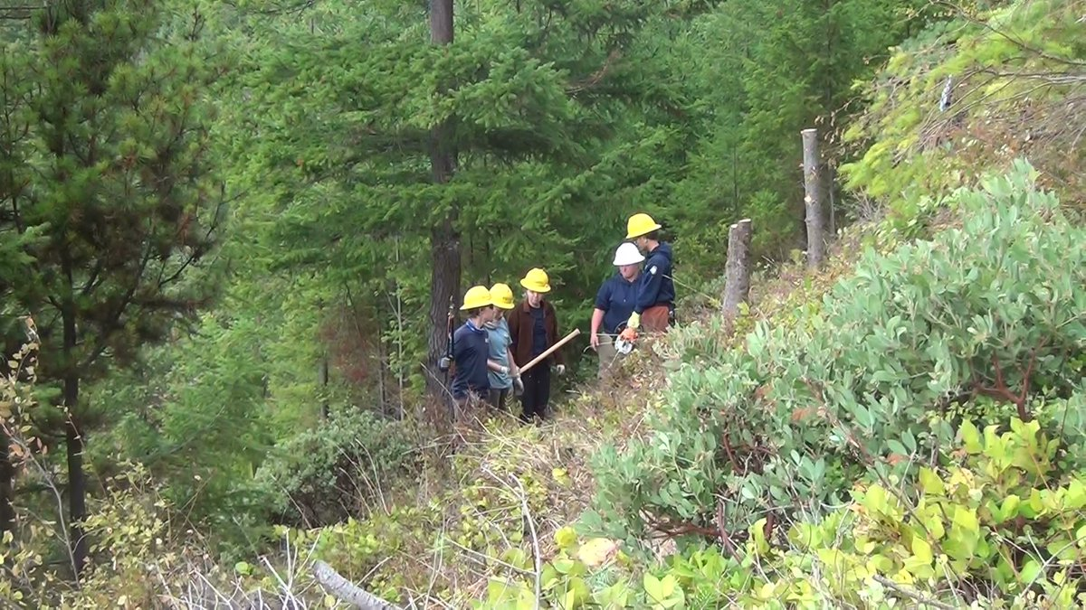 Want a summer #job? You ave to apply in a tight window: Nov 14-20! Review summer opportunities with us